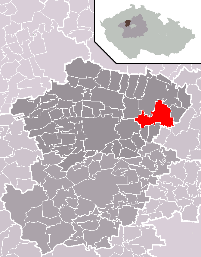 Location of Velvary town within Kladno District and administrative area of Slaný as a Municipality with Extended Competence.